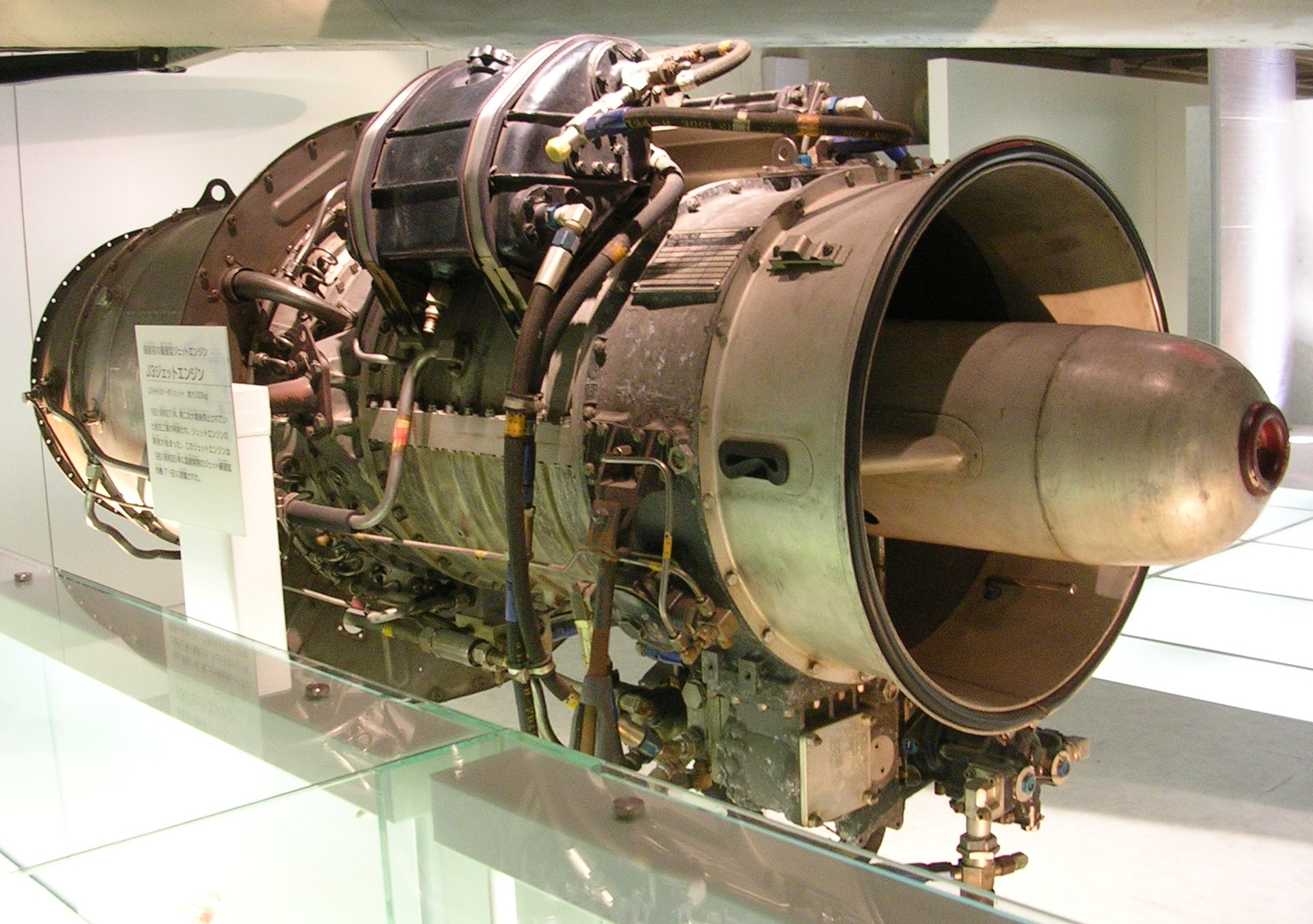 J3-IHI-3 turbojet engine exhibited at National Science Museum of Japan